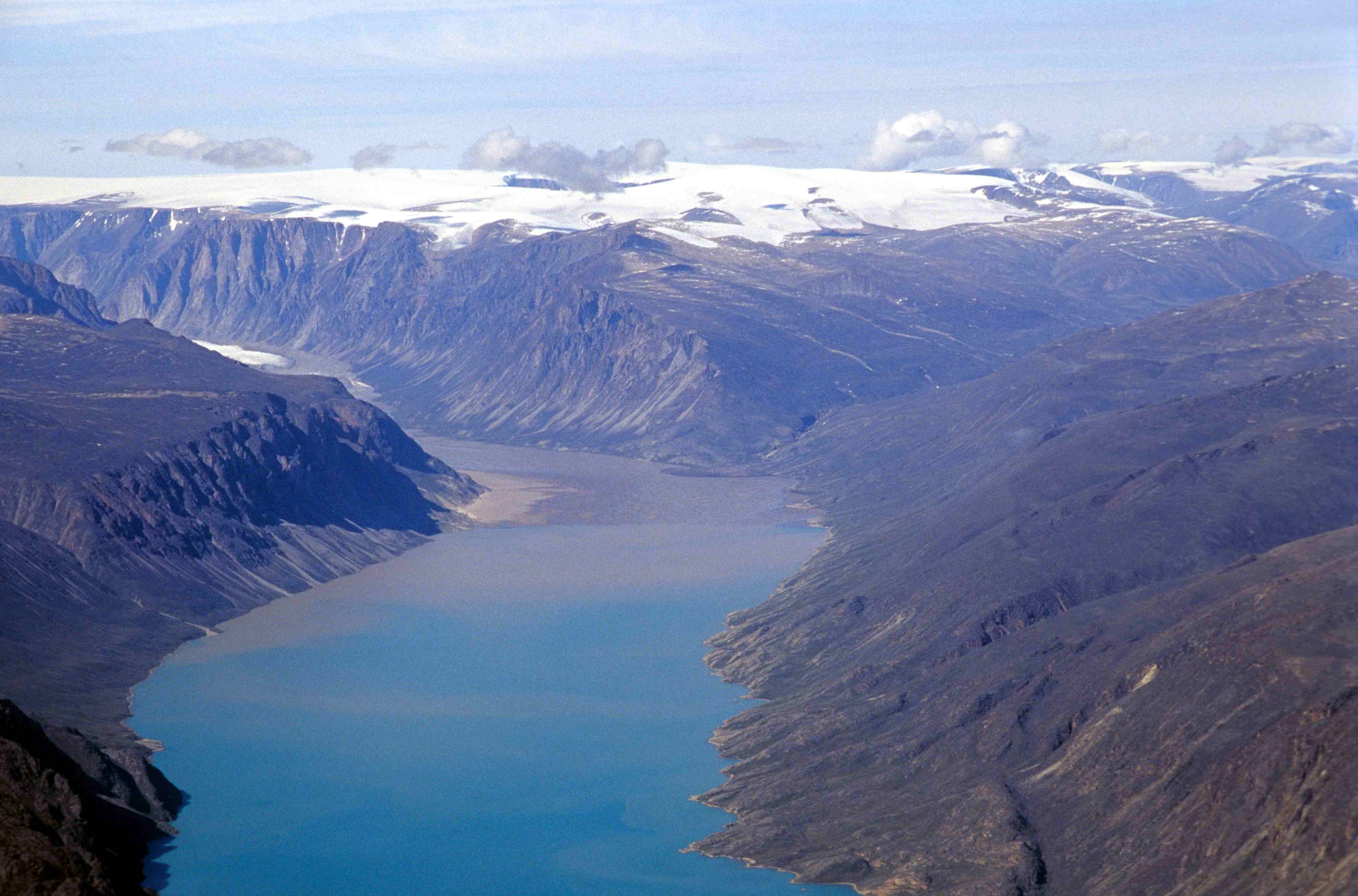 North Pangnirtung Fiord and delta of Owl River